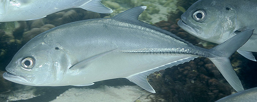 Caranx sexfasciatus Bora Bora, French Polynesia November 2009